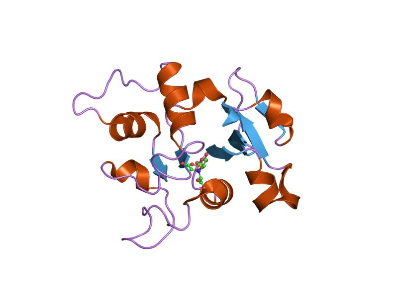 Cartoon representation of the molecular structure of protein registered with 1gvc code.